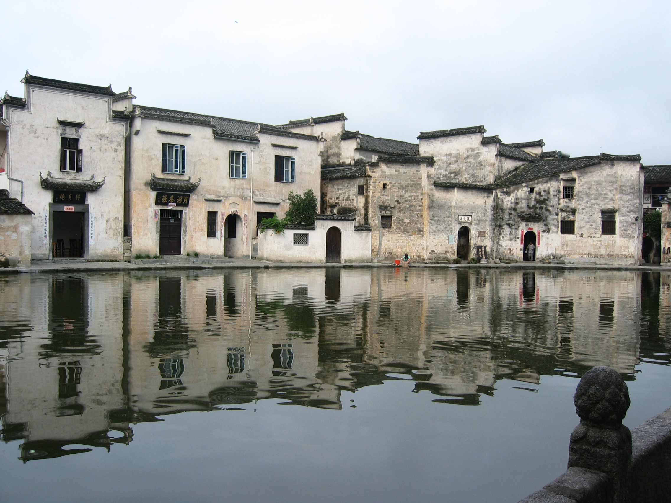 HongCun central clearing in AnHui province.